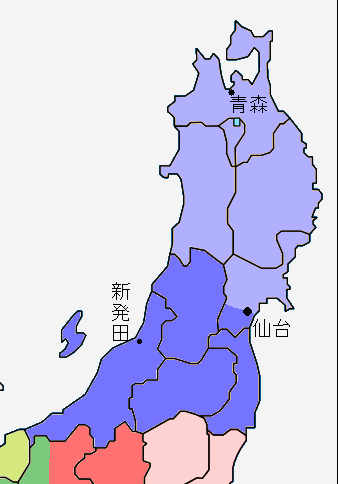 2nd Army Region was composed of two Divisional Regions. Dark colour is the area of 3rd Divisional Region. And light one is 4th Divisional Region. South warm colour are 1st Army Region. West red is the 1st Divisional Regions and east pink is 2nd Divisional Region. Southwest green are 3rd Army Region. East green is the 5th Divisional Region and the light green is 6th Divisional Region. This map is derived to File:Gokishichido.svg.